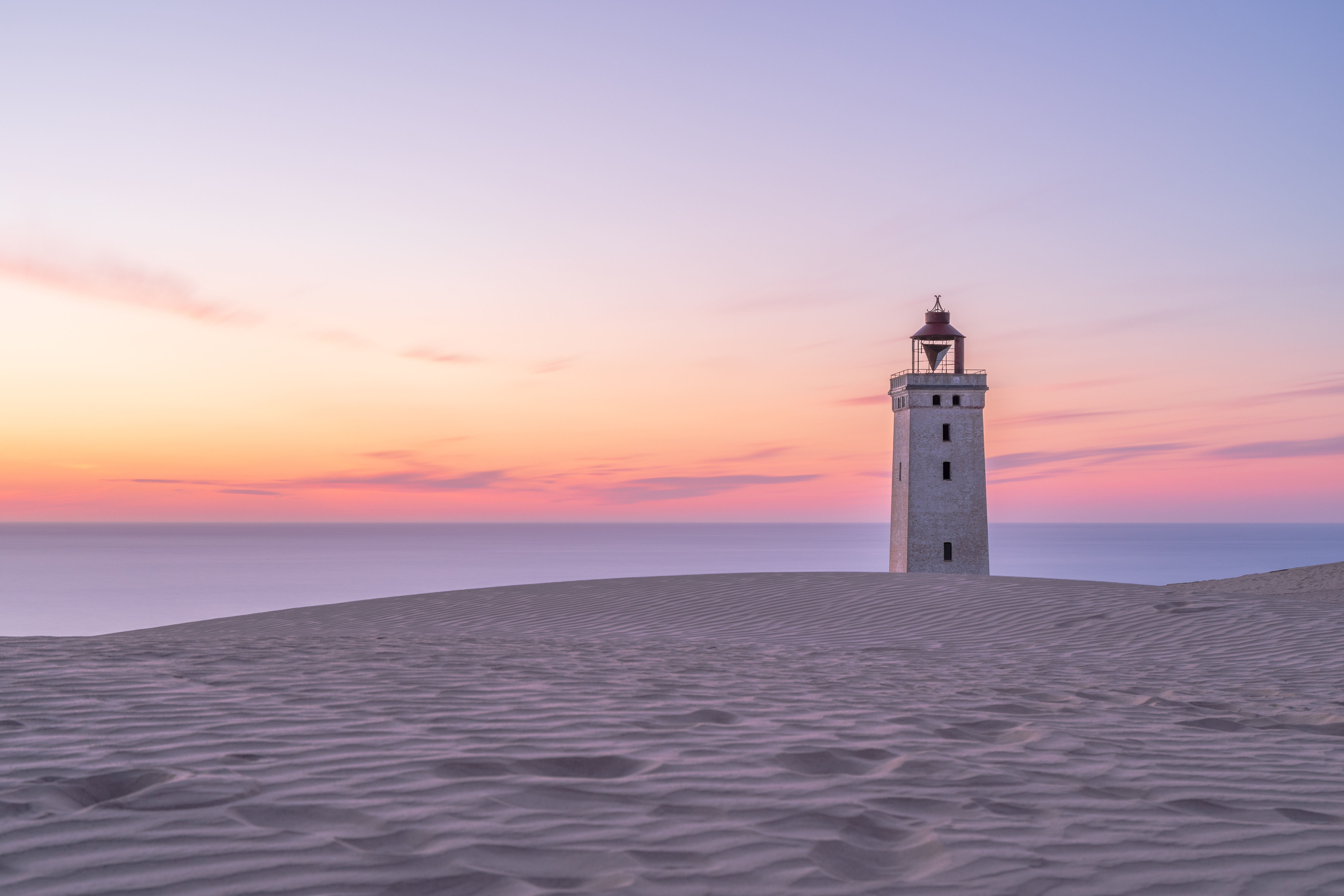 Rubjerg Knude Fyr is a lighthouse between Lønstrup and Løkken (municipality Hjørring) in Denmark which was built in 1900. From the 1910s, the wind blew large amounts of sand from the cliffs and the actual dune formed between the lighthouse and the sea. The dune moved towards northeast and now has completely passed the lighthouse. Of the outbuildings only loose bricks remains. The lighthouse was built 200 m from the coast, but the sea has since eaten into the 60 m high cliff so much that the lighthouse is now in grave danger of falling into the sea . It's now planned to move it 60-80 meters inland, which should protect it another 40-60 years.